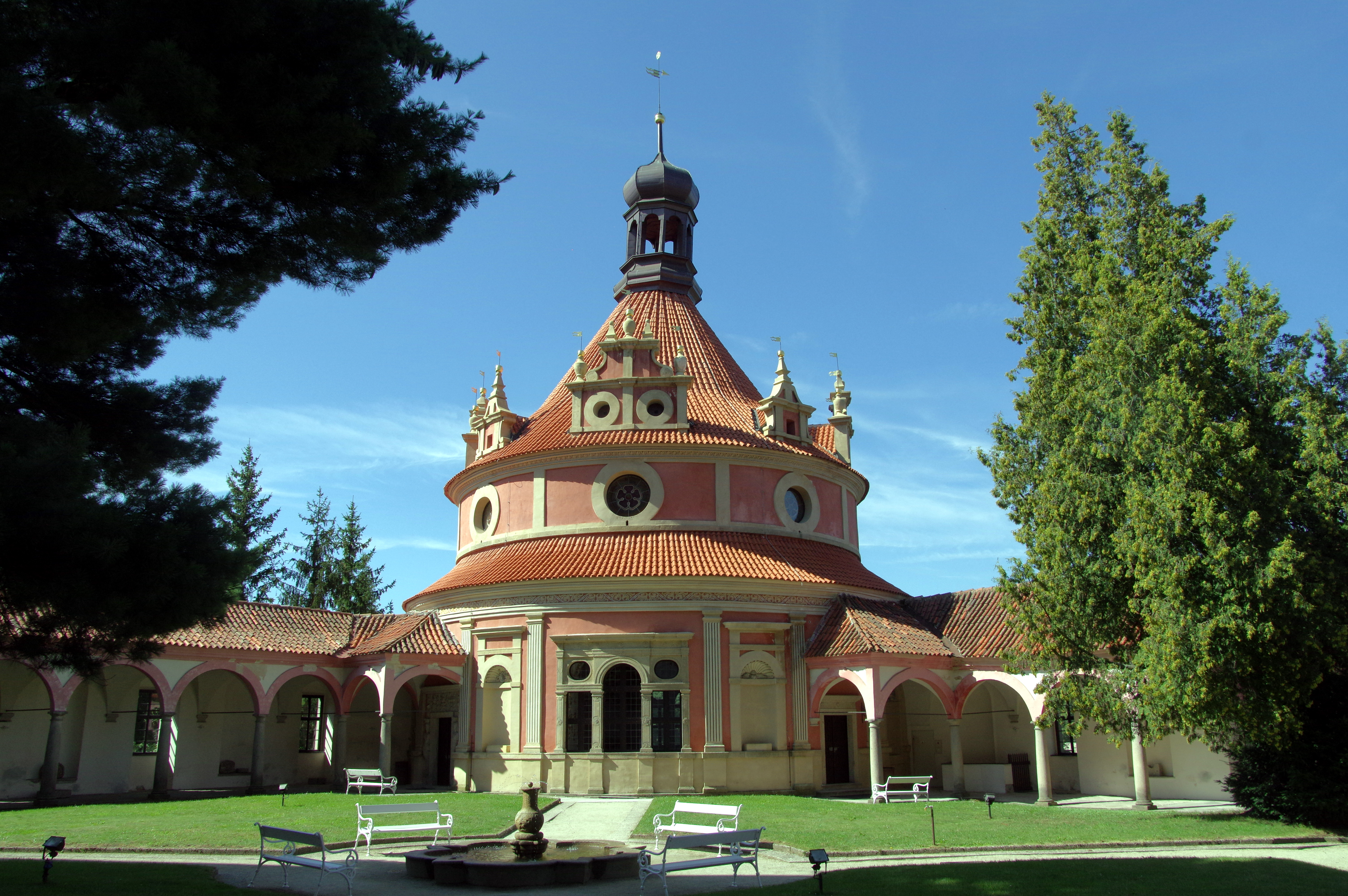 30.7.16 Hradozámecké slavnosti Jindrichuv Hradec